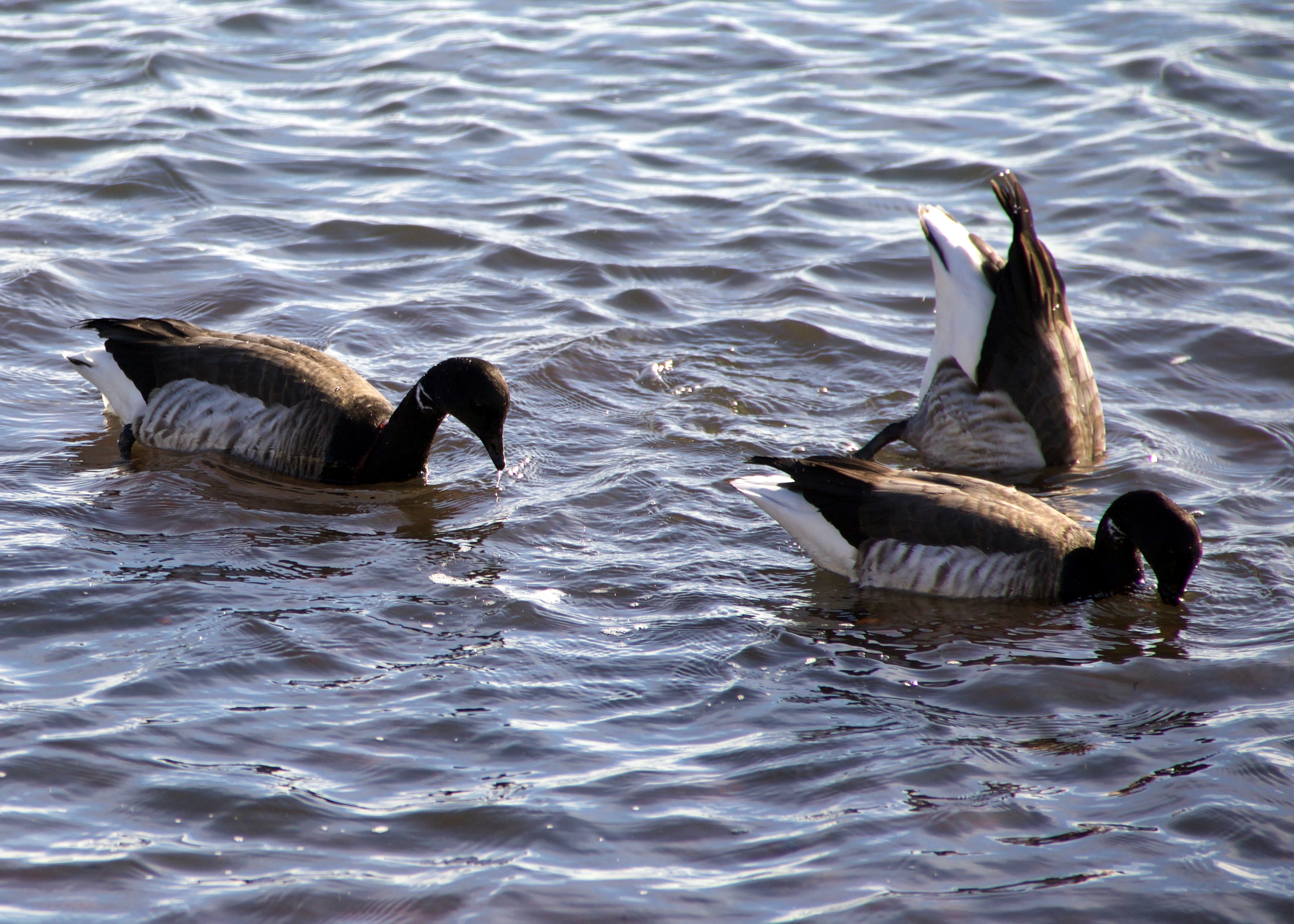 Pale-bellied Brant Geese Branta bernicla hrota, Long Island Sound, Milford, CT, USA, Dec. 25 2018.